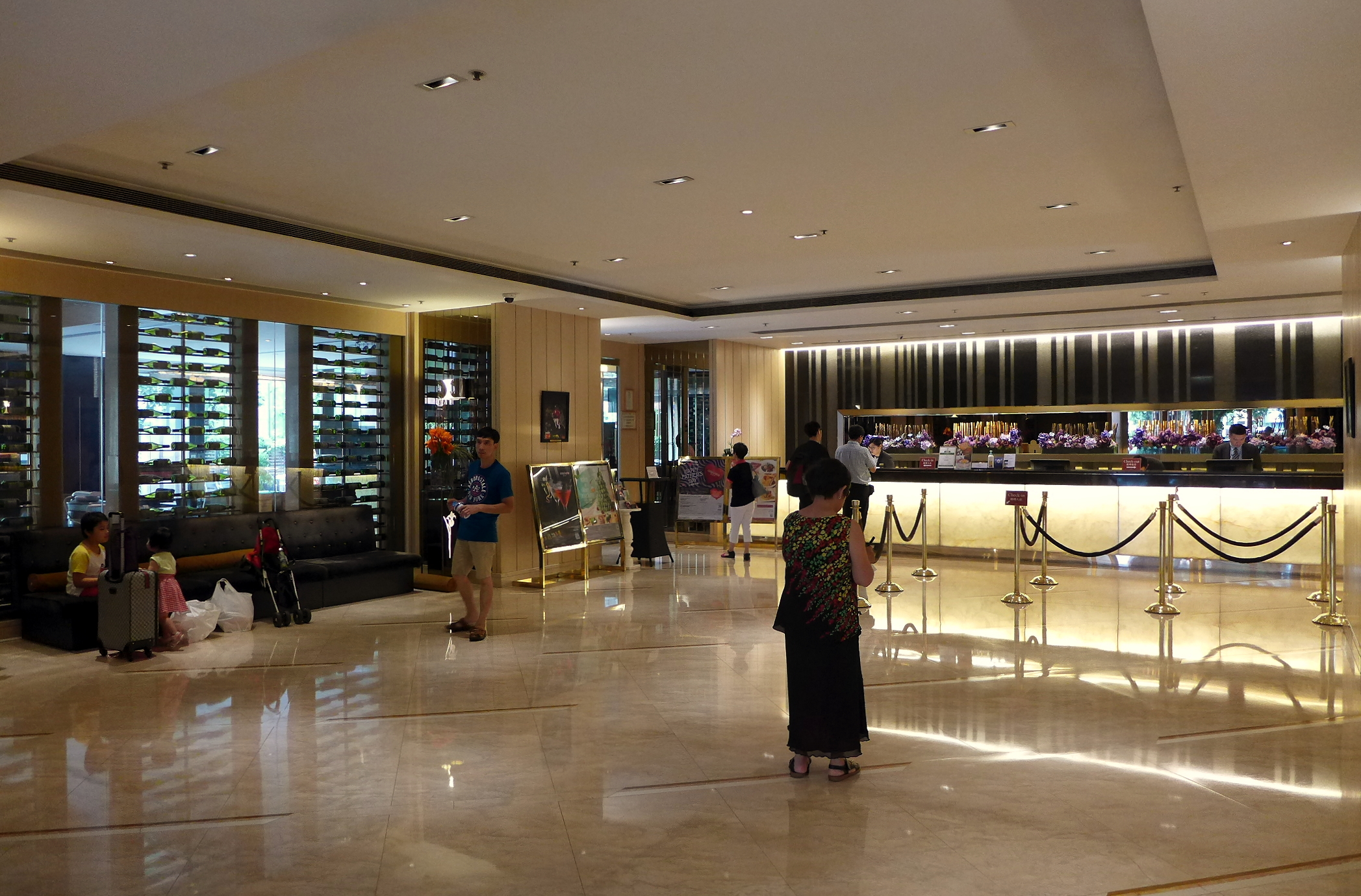 Royal Park Hotel Lobby